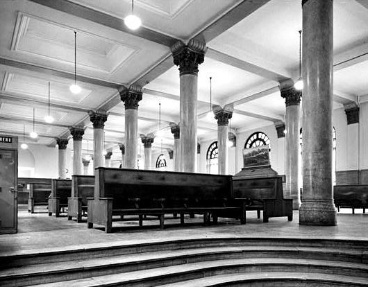 Grand Central Station; Historic American Buildings Survey Cervin Robinson, Photographer July, 1963 INTERIOR: WAITING ROOM HABS ILL,16-CHIG,18-3 Grand Central Station